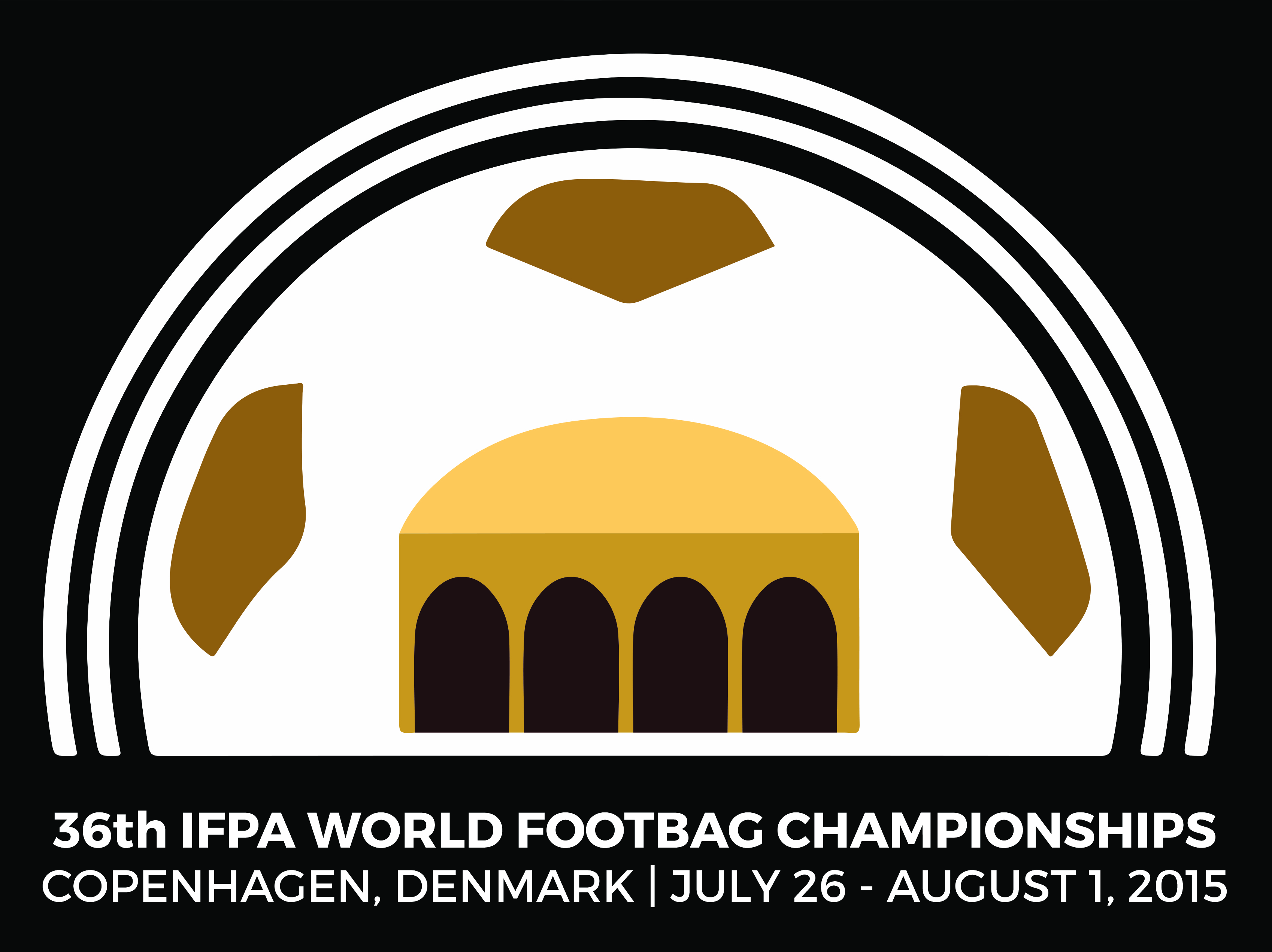 JULY 26 - AUGUST 1, 2015